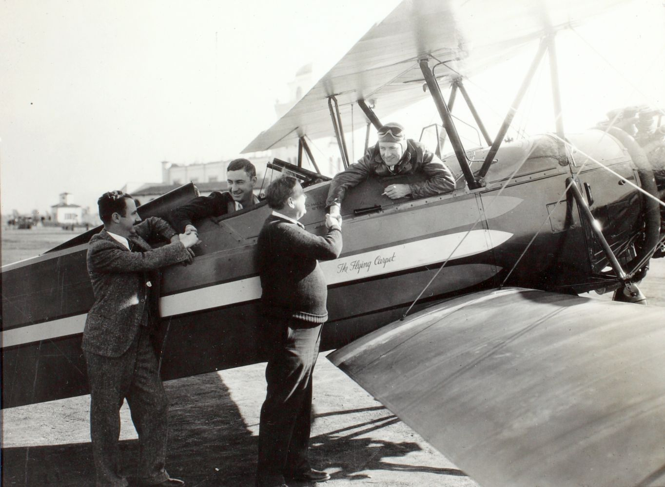 From the Frank S. "Luke" Luqueer Photo Collection The Frank S. "Luke" Luqueer Photograph Collection is composed of 4 large albums covering from the 1920s to the 1950s. The albums contain historic photos and correspondences from many important historical figures such as Jack Frye, Pat Amelia Earhart, Wiley Post, Howard Hughes, Hap Arnold, Jimmy Doolittle, Art Goebel, Charles Lindbergh, Douglas McArthur, and Ruth Elder to name a few. Many of the images have been autographed. Frank Luqueer is a notable aviation photographer. He bought his first camera in 1903 and devoted much of his life to taking photos of historic personalities and events in aviation history. Repository: San Diego Air and Space Museum Archive